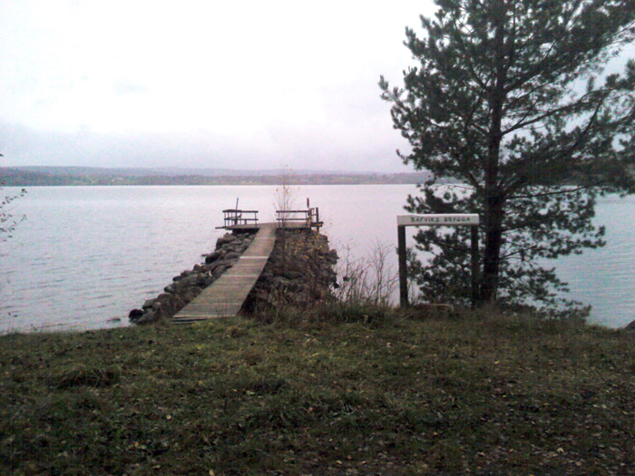 Bäviks brygga, oktober 2014.